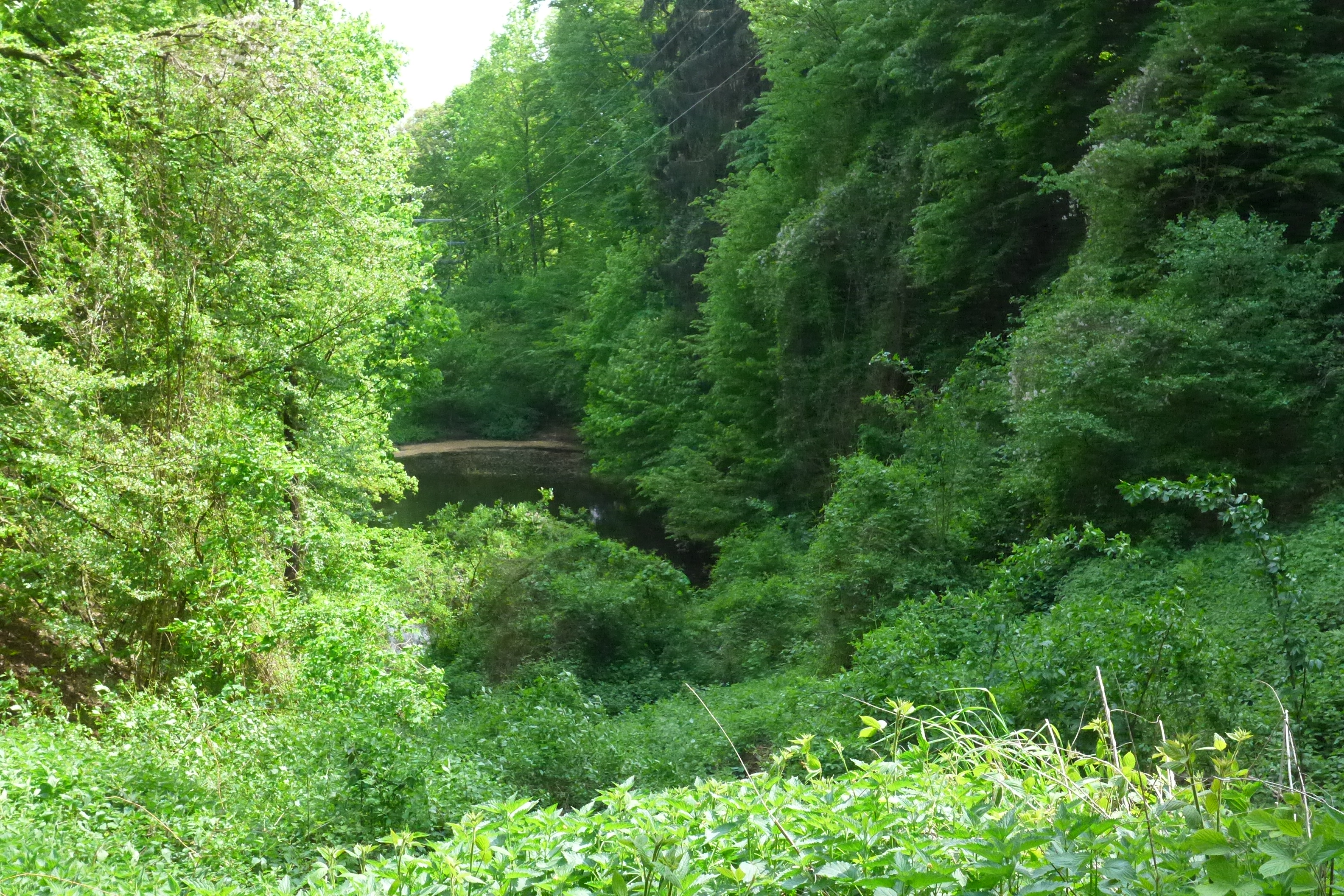 Cultural world heritage city of Regensburg includes nature reserve Keilsteiner Hang; remarkable topology: right side "young" Jura limestone, right side granite from the earth's middleages (Bavarian forest starts here); little canyon with tiny lake and rain forest like plants